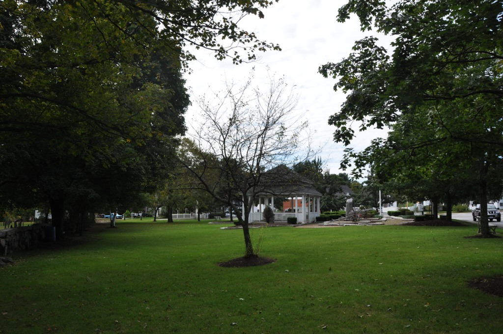 Salem Common, centerpiece of the Salem Common Historic District in Salem, New Hampshire